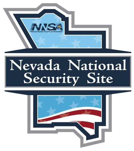 Logo of Nevada National Security Site, former Nevada Test Site